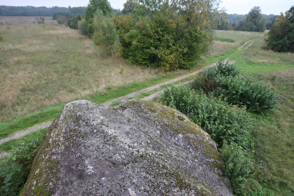 Mihkli-Jaagu stone, Lääne County, Estonia